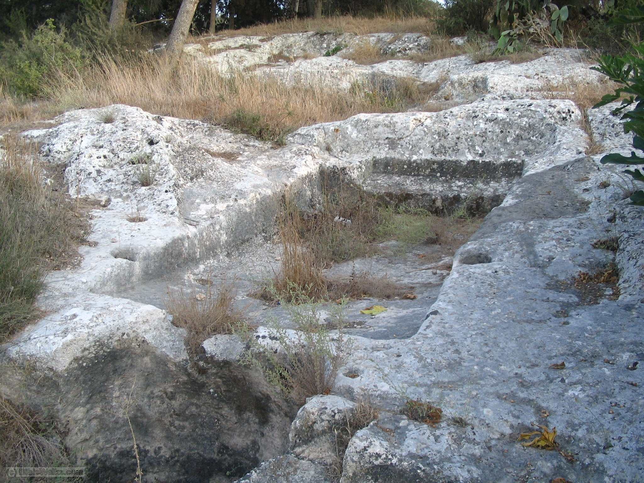 author: Summary: This Bronze age winepress is located on the north hillsides of Migdal Haemek, Israel. The top side of the wine press with steep rectangular floor is where the grapes were arranged. The workers squashed the grapes with their feet, and the juice would flow down to the lower side, through an outlet hole and into a collecting basin. As a filter, these holes were filled with a collection of thorns or brushes. On both sides of this pit there are 2 vertical holes, where poles were laid into the hole, and held by the workers during the pressing over the grapes. In one of the 8 presses found in this site there were 8 holes on the sides, used to hold poles for providing shadow for the comfort of the workers. Biblewalks 23:51, 1 June 2007 (UTC) Category:Wine-related images